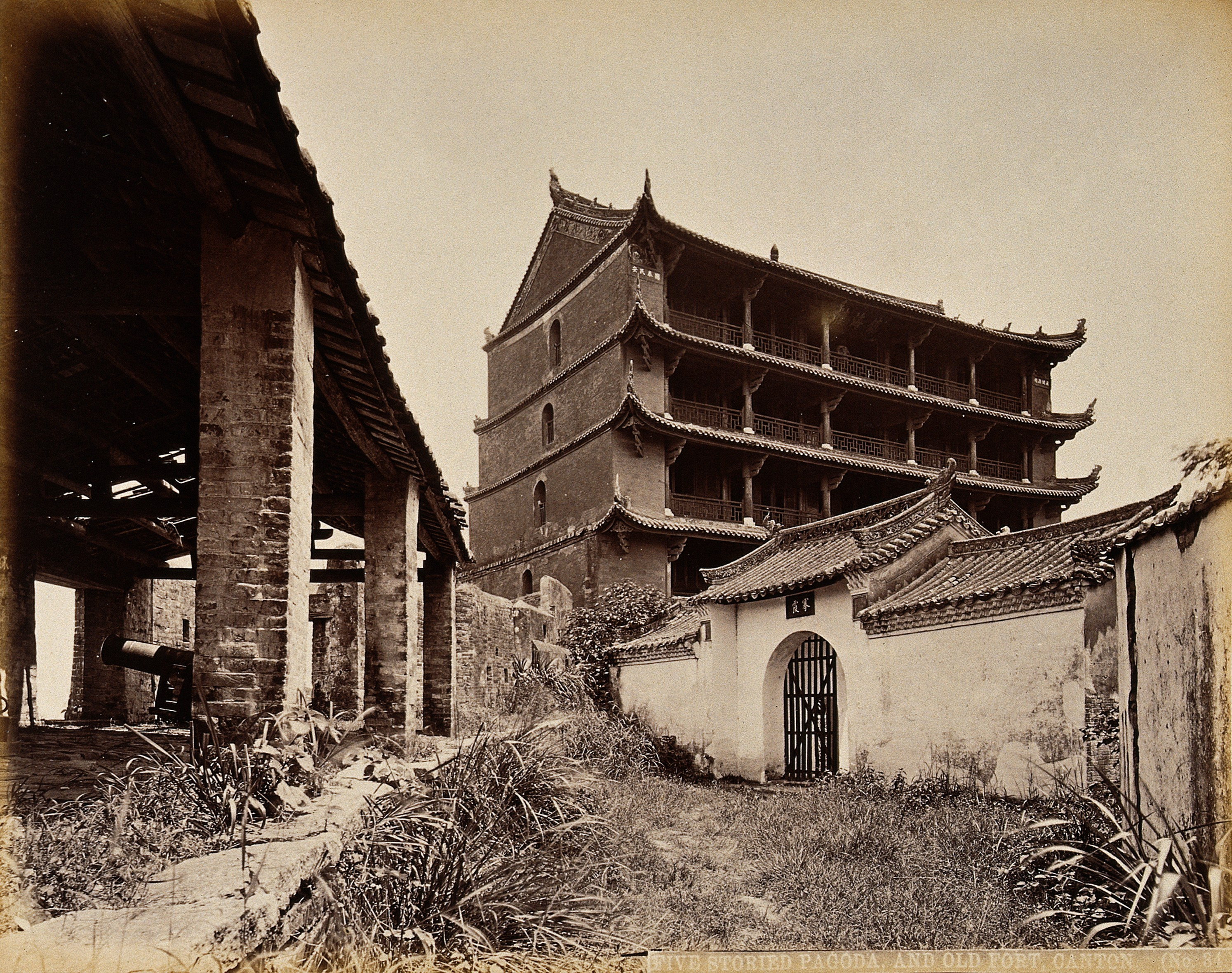 China Iconographic Collections Keywords: William Pryor. Floyd